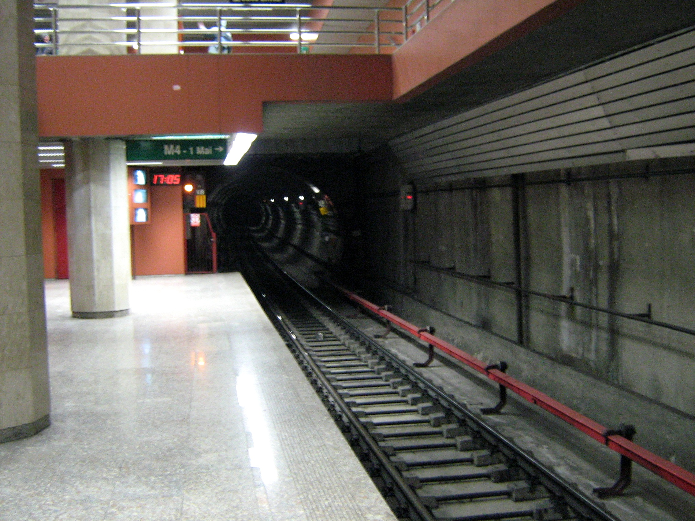 A metro station in Bucharest, showing it uses a 'third rail'.